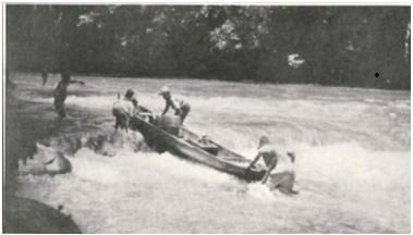 Jesuit missionaries negotiating the Belize river by pitpan